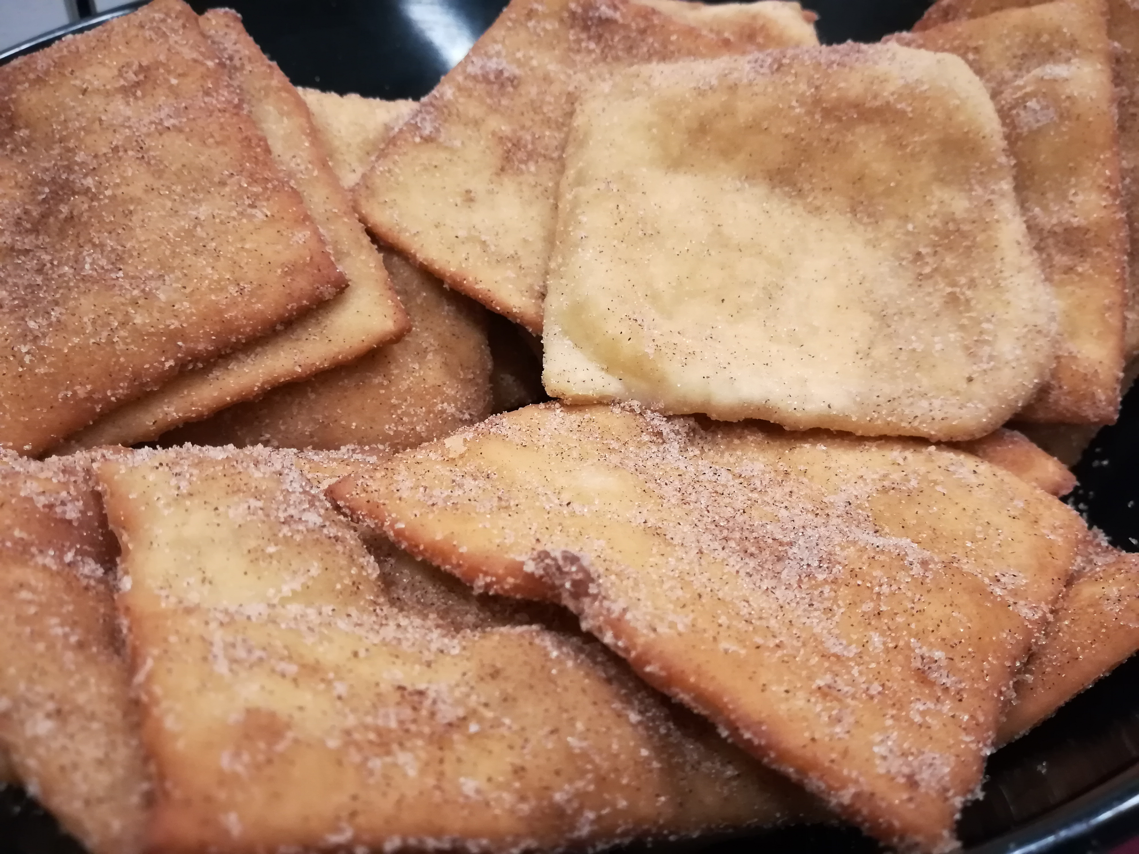 Sopapillas are pièces of fried dough common to regions with a Spanish heritage.